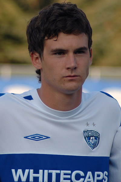 Headshot of soccer player, Luca Bellisomo.